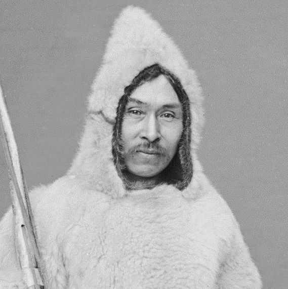 Portrait of Ebierbing